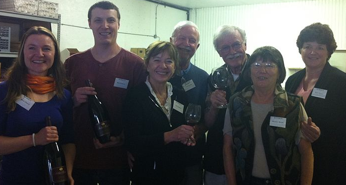 The viticulture and winemaking staff of the Eola-Amity Hills Oregon winery Bethel Heights. (Left to Right) Mimi Casteel, General Mgr and Viticulturalist Ben Casteel, Winemaker Pat Dudley, Founder, President and Marketing Director, Ted Casteel, Founder and Vineyard Manager Terry Casteel, Founder and Winemaker Emeritus Marilyn Webb, Founder and Chief Financial Officer Kate Crowe, Tasting Room Manager